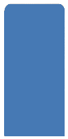 Rank insignia of Romanian Gendarmerie private